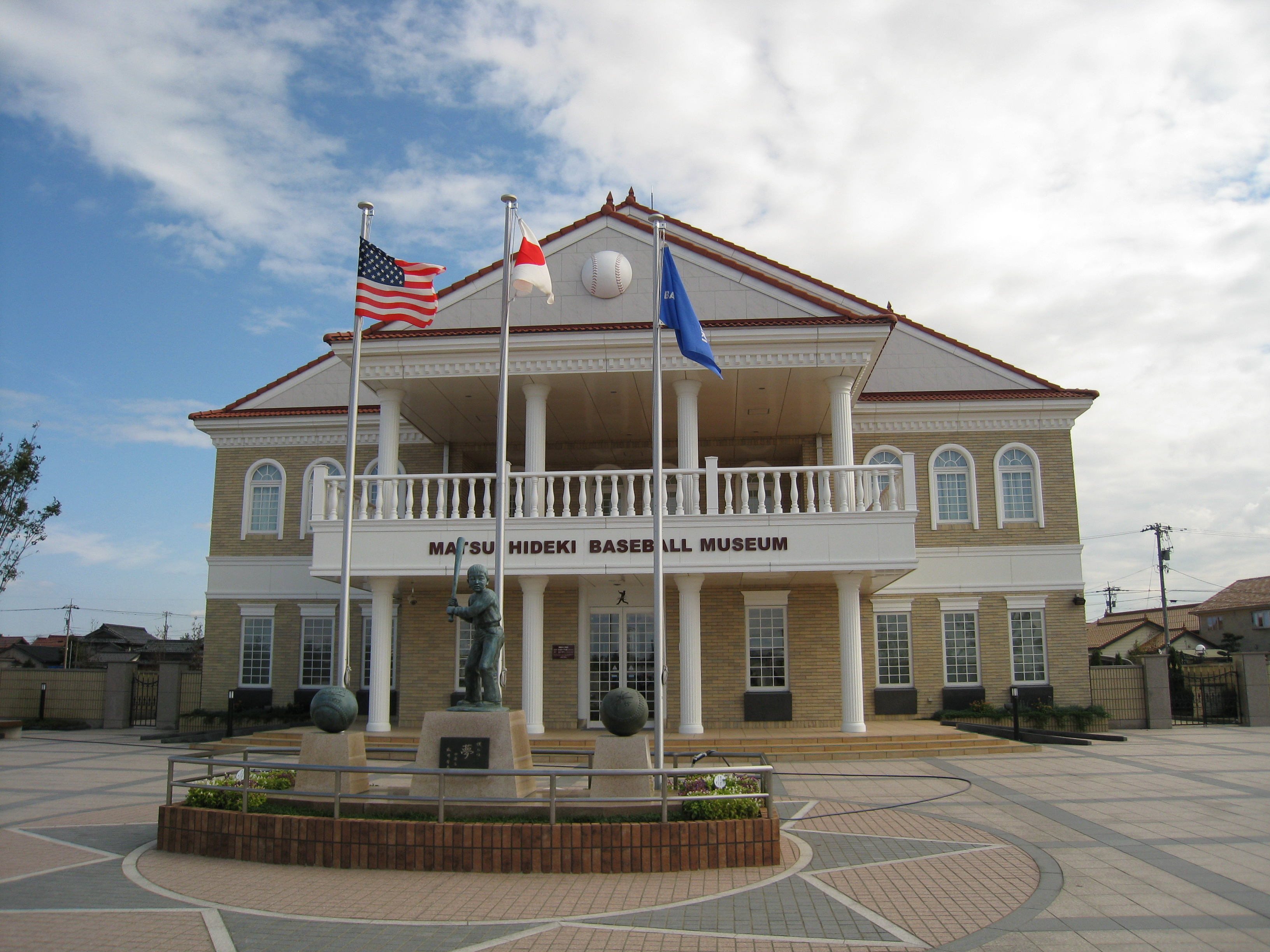 Matsui Hideki Baseball Museum (松井秀喜ベースボールミュージアム), located in Nomi, Ishikawa, Japan